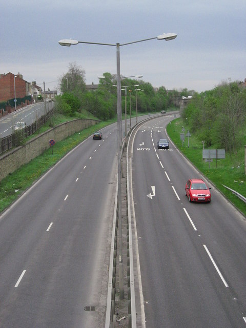 The Mad Mile. This section of the A638 Dewsbury to Wakefield Road is known locally as the Mad Mile, because of motorists' driving habits before speed limits and mobile cameras were installed.